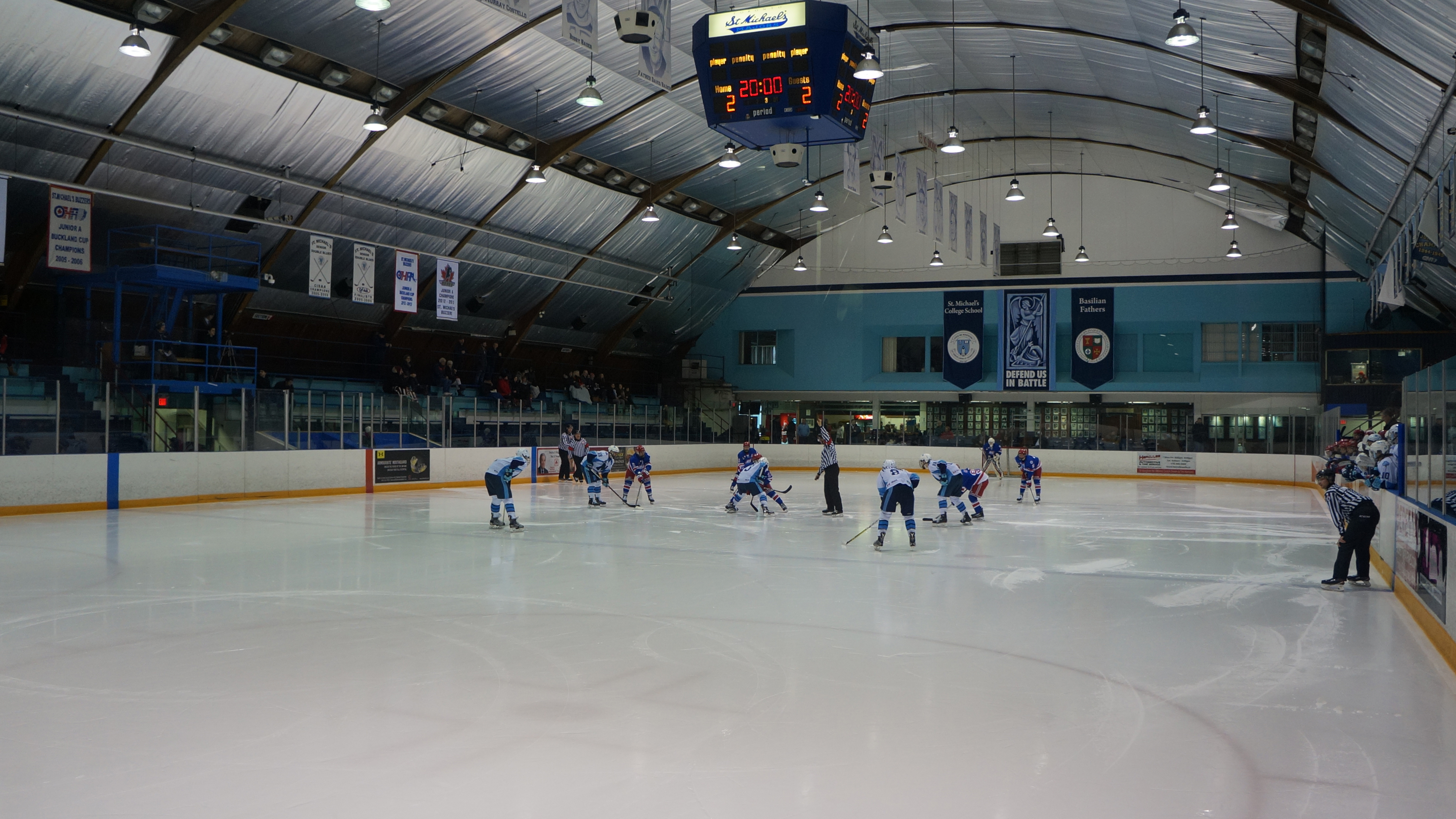 The St. Michael's Buzzers hosting the Oakville Blades in the St. Michael's College School Arena, January 7,2018